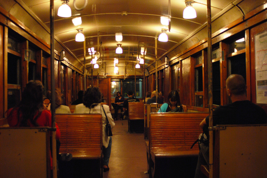 Comming shortly!